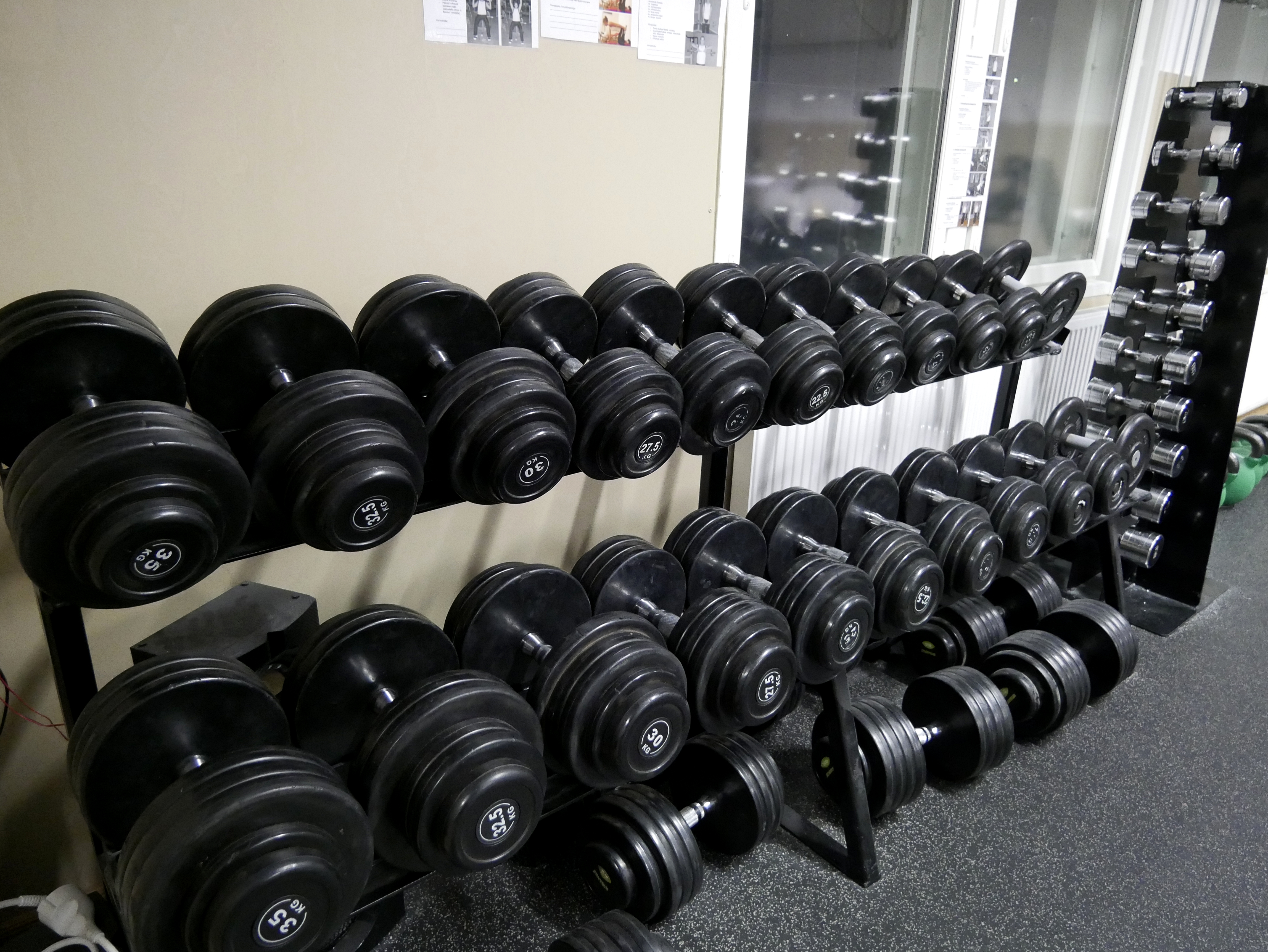 Dumbbells on rack.